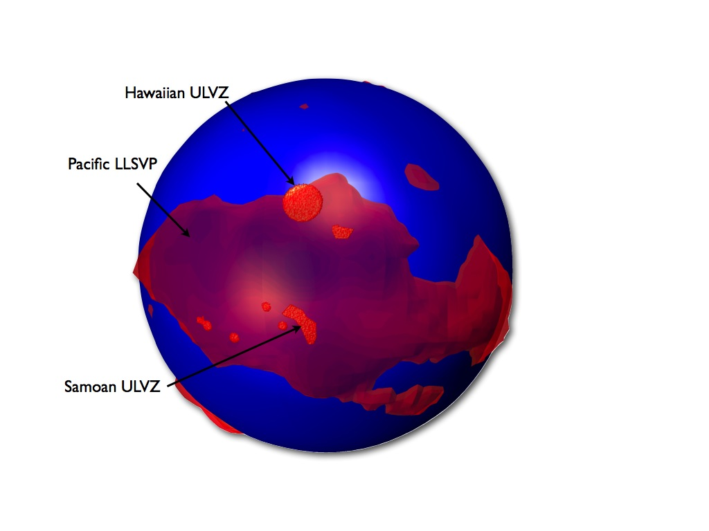 Cartoon of structures on the core of the Earth (blue). The transparent red structure is the Pacific Large Low Shear Velocity Province. The smaller, thinner, red structure are Ultra Low Velocity Zones. Arrows point at the Hawaiian and Samoan Zones, which are the two largest mapped (so far).